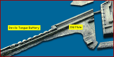 Devil's Tongue Battery in Gibraltar 1865 model - pic from which is cc by sa